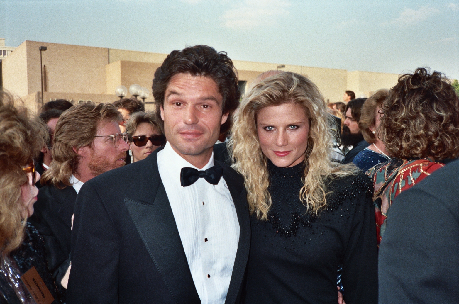 1987 Emmy Awards NOTE: Permission granted to copy, publish, broadcast or post any of my photos, but please credit "photo by Alan Light" if you can. Thanks. Scanned from the original 35MM film negative.